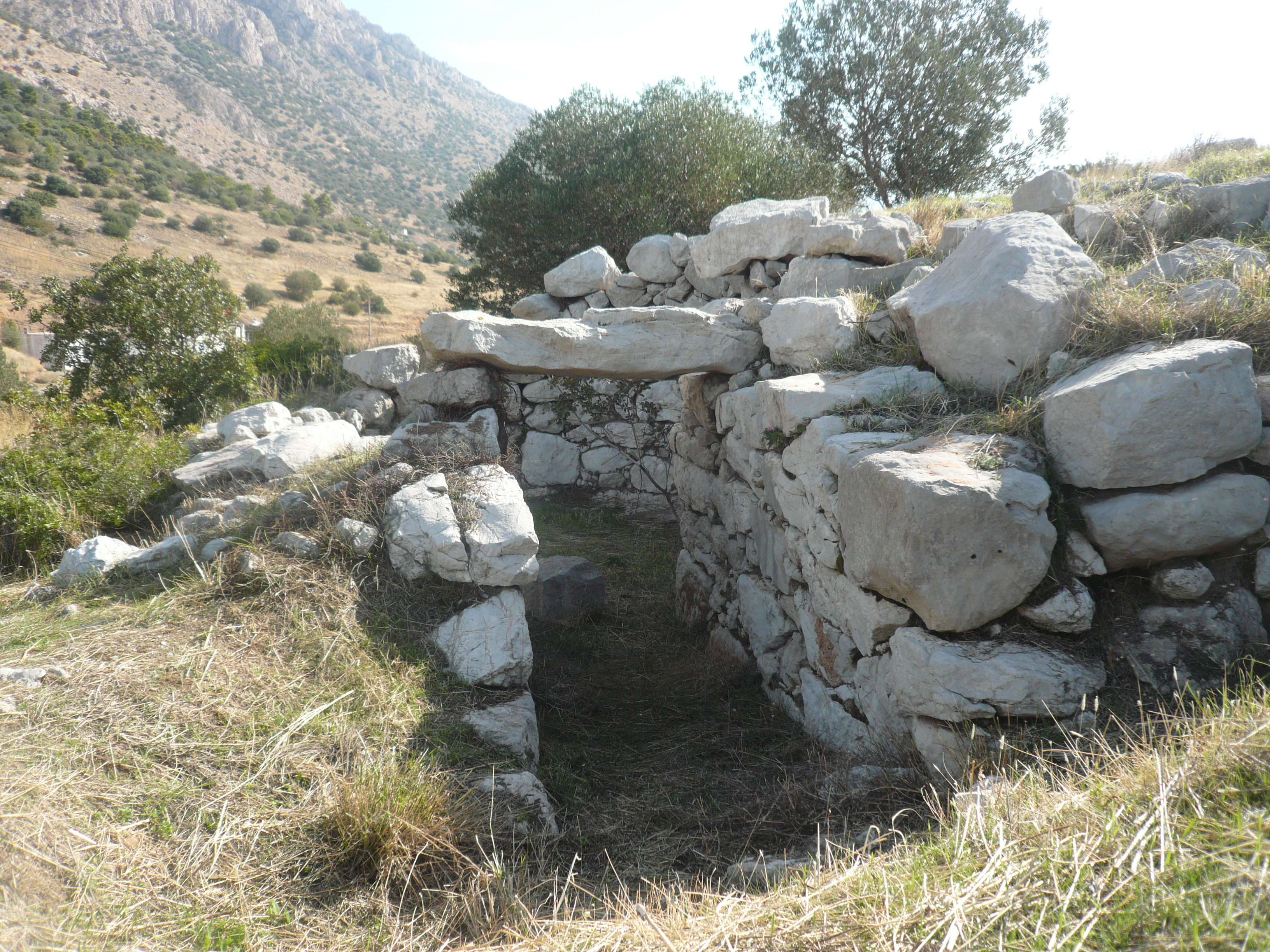 Tomb in acropolis of Medeon, Boeotia, Greece